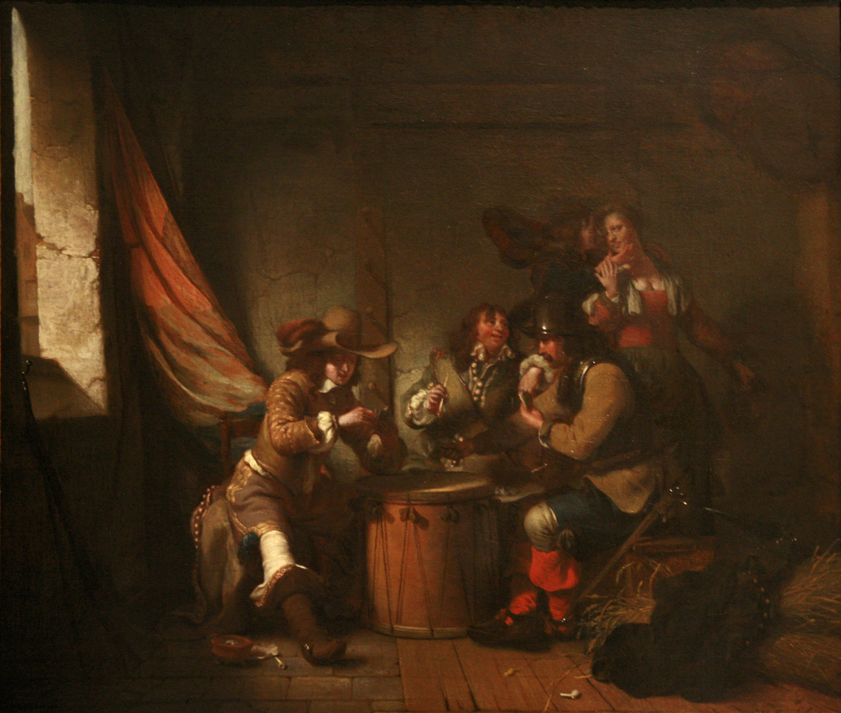 Guardhouse